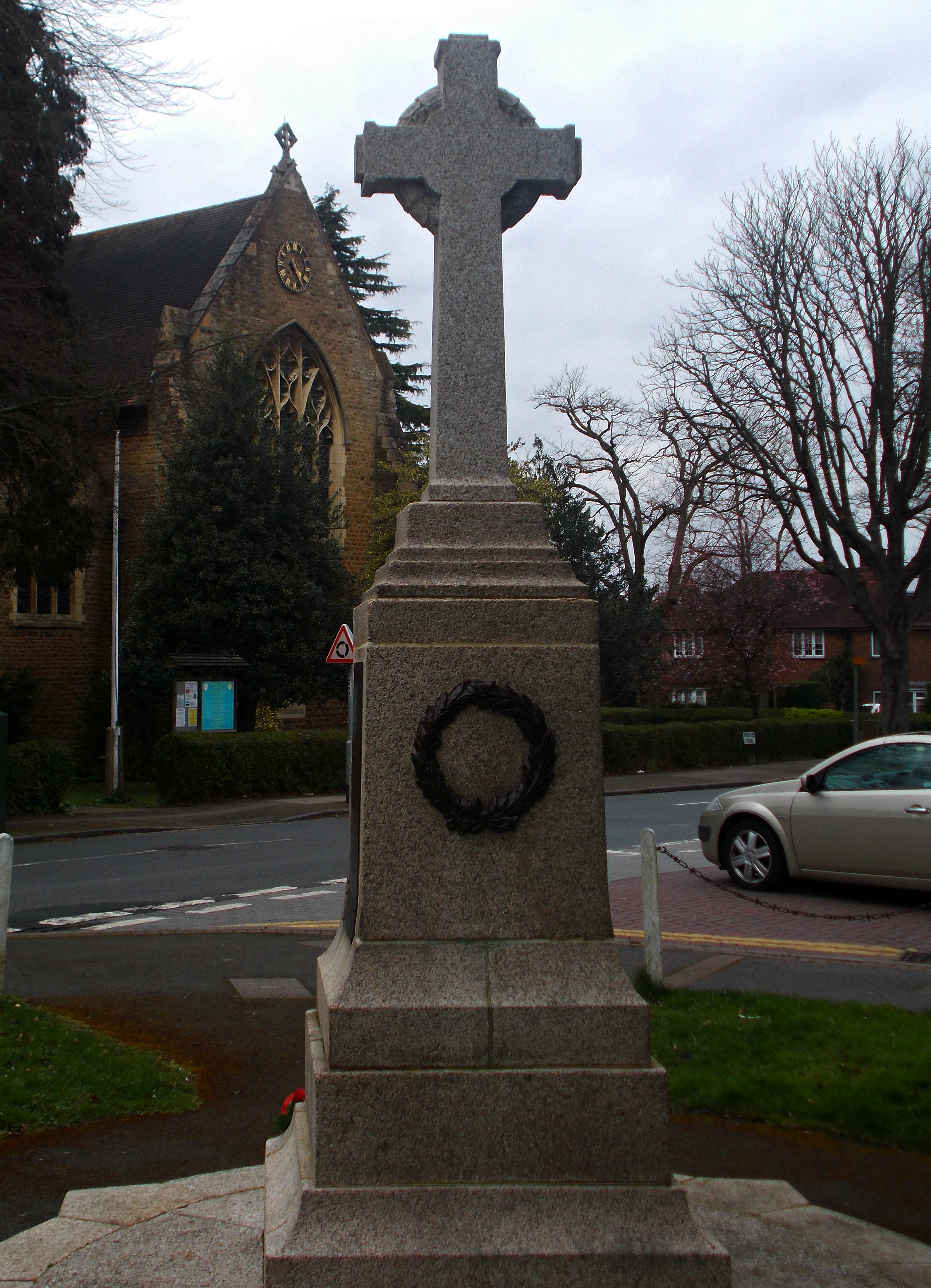 The rear of Belmont war memorial, Sutton, south London (formerly Surrey), seen from the southeast. In the background is the parish church of St John the Baptist.